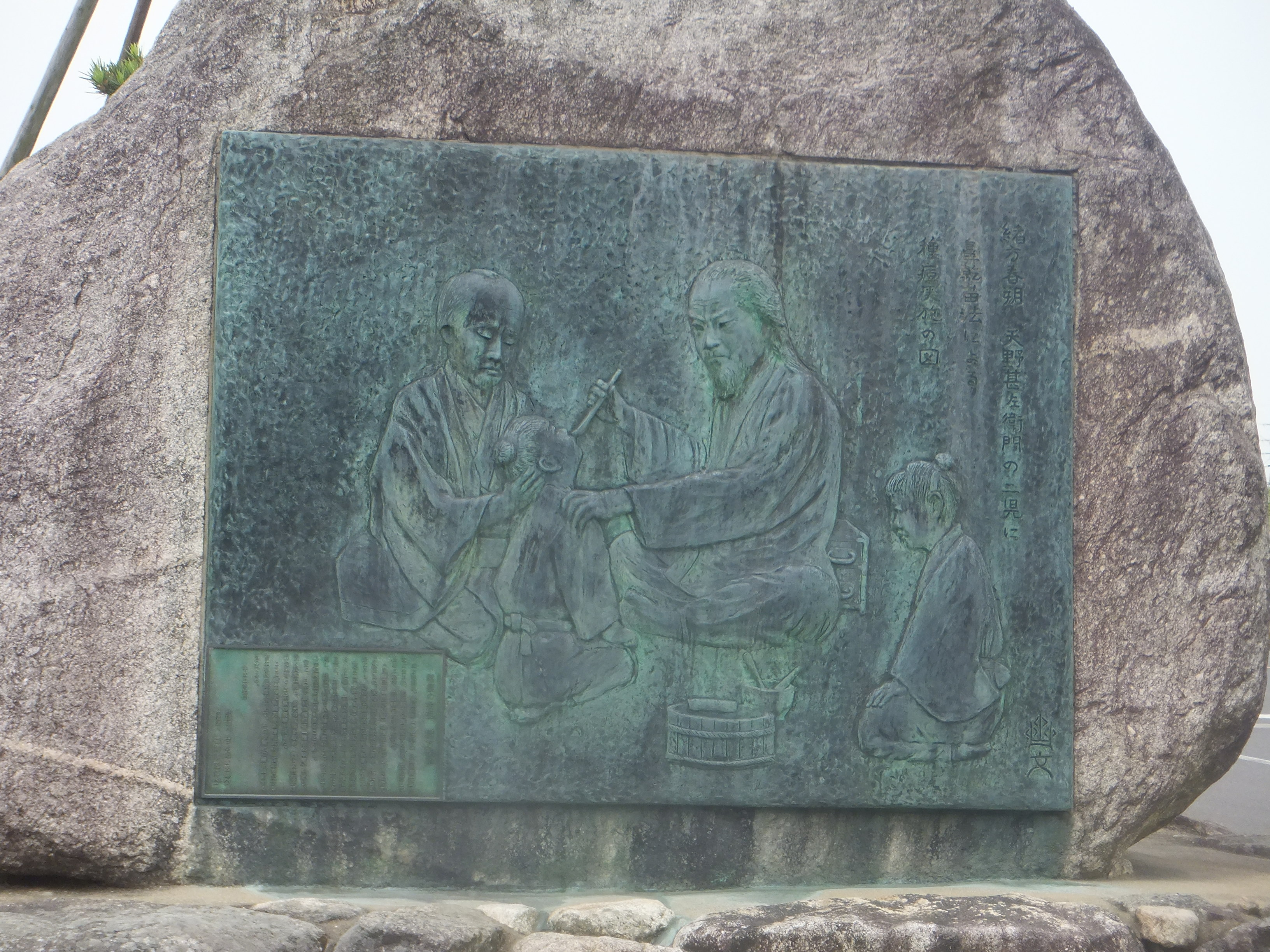 Relief in front of the Asakura Ishikai-Hospital commemorating the introduction of the smallpox variolation by the Japanese physician Ogata Shunsaku (1748-1810).